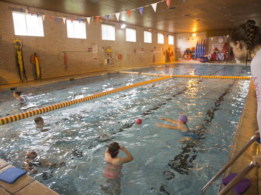 An image of the pool at Calon Tysul